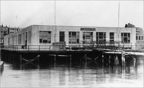 East Boston, circa 1922. A waterfront view of the immigration station